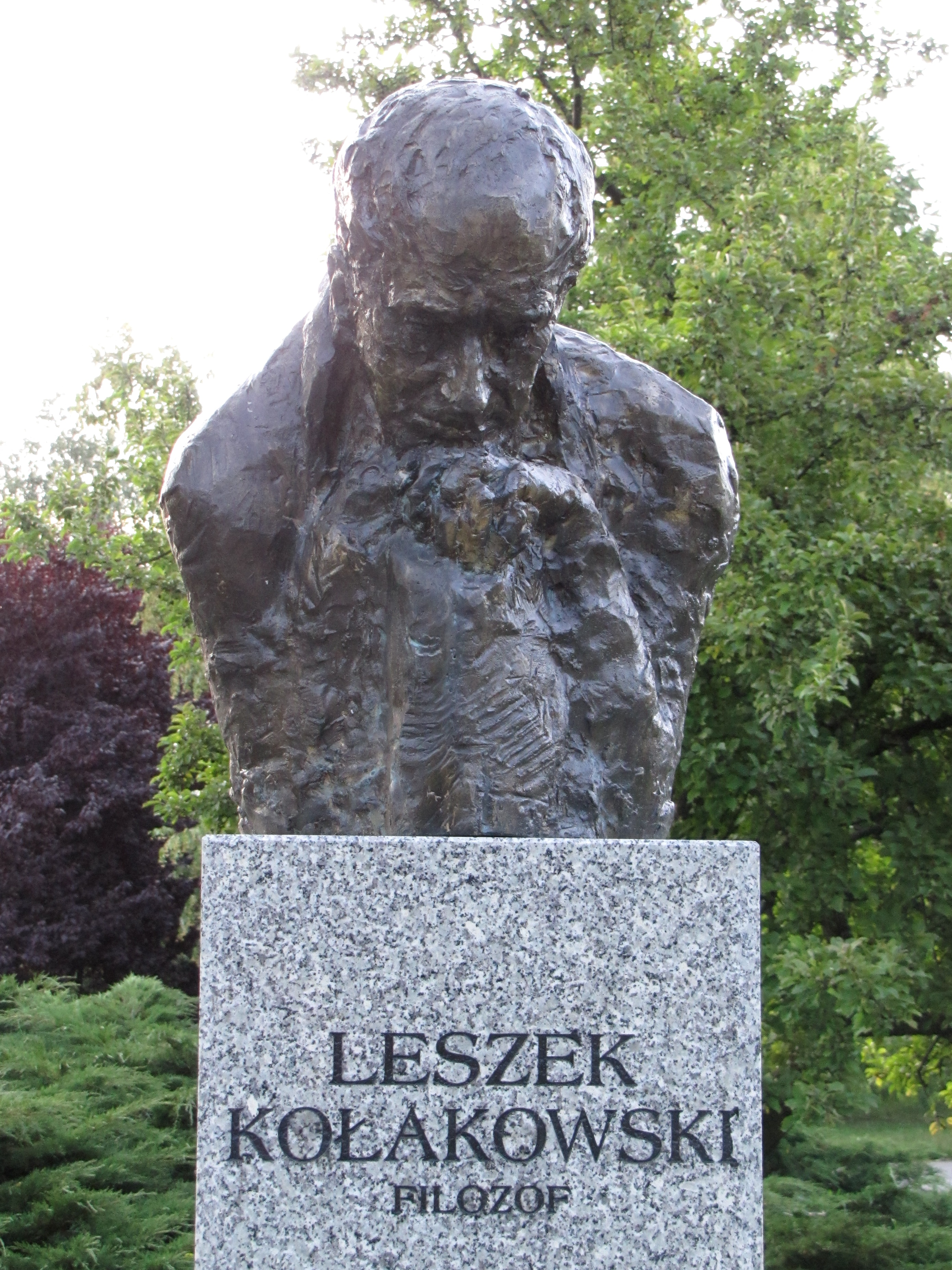 Bust of Leszek Kołakowski in Celebrity Alley in Kielce (Poland)